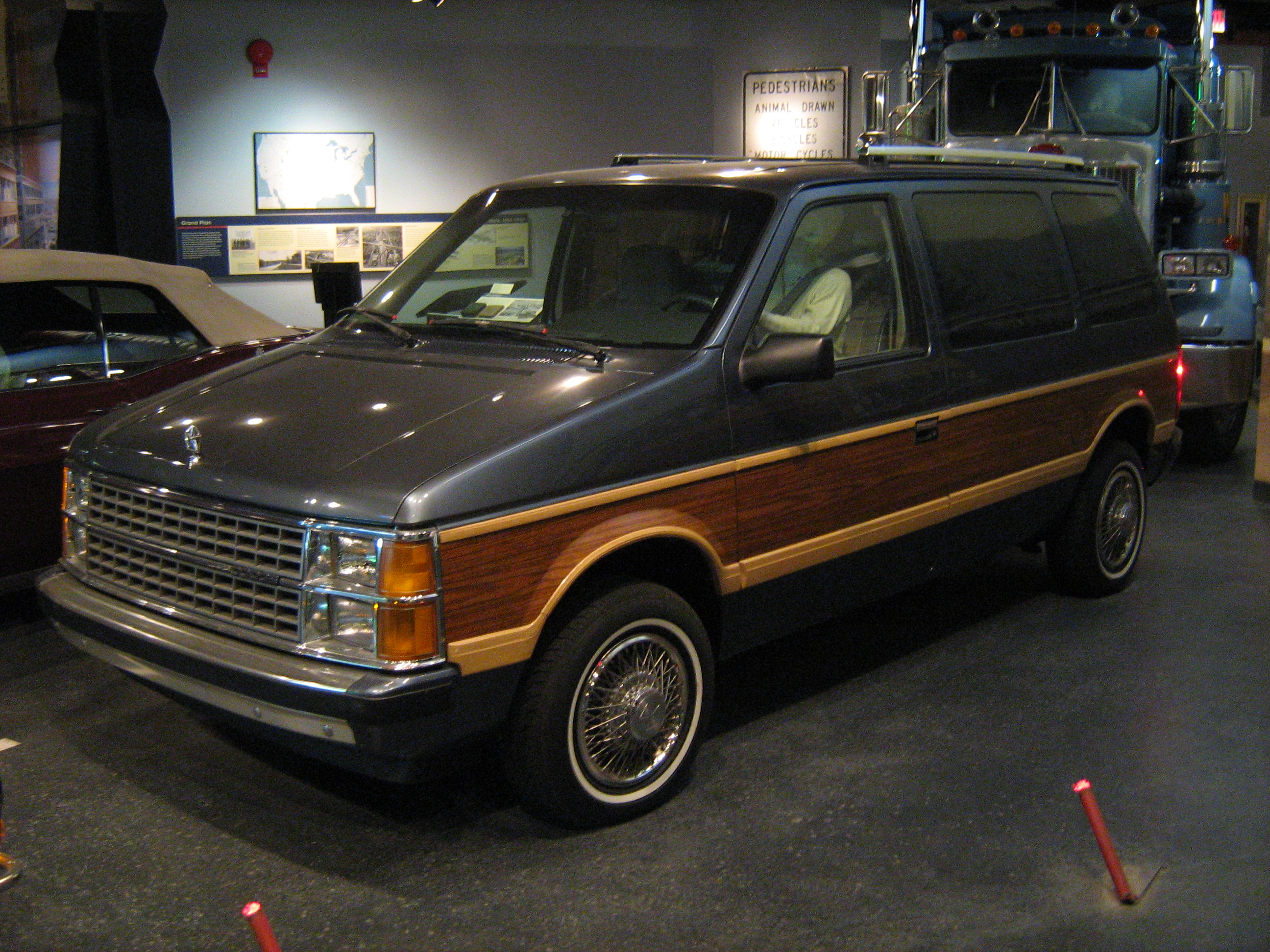 1986 Dodge Caravan (short wheel base version featuring the "woodie" simulated woodgrain trim) on display at the Smithsonian's National Museum of American History, in Washington DC. This first-generation minivan is featured in the "America on the Move" display. This exhibit was opened in November 2003, that also marked the 20th anniversary of the minivan and the year Chrysler sold its 10 millionth minivan worldwide.